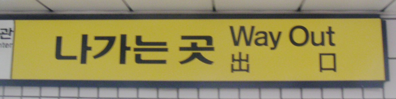 This photo was taken by this user for use in Wikipedia.